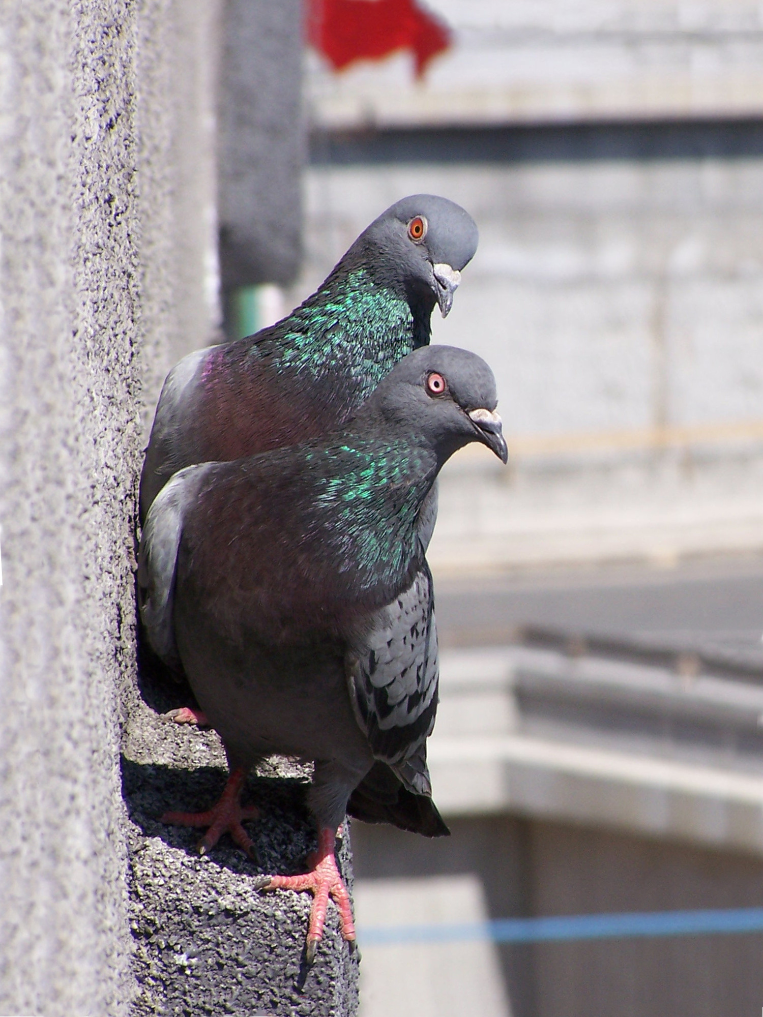 Pigeons.